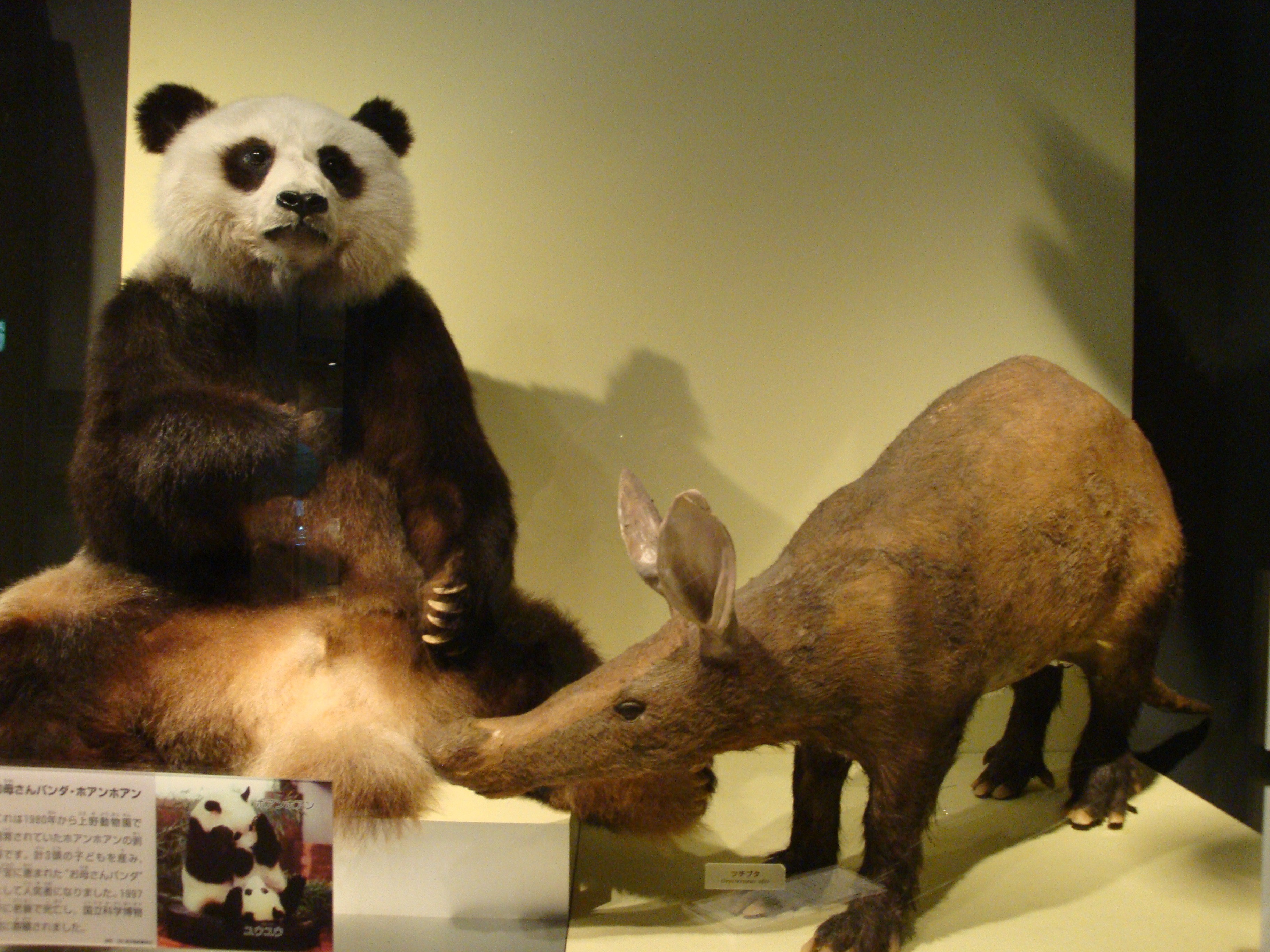 Global Gallery